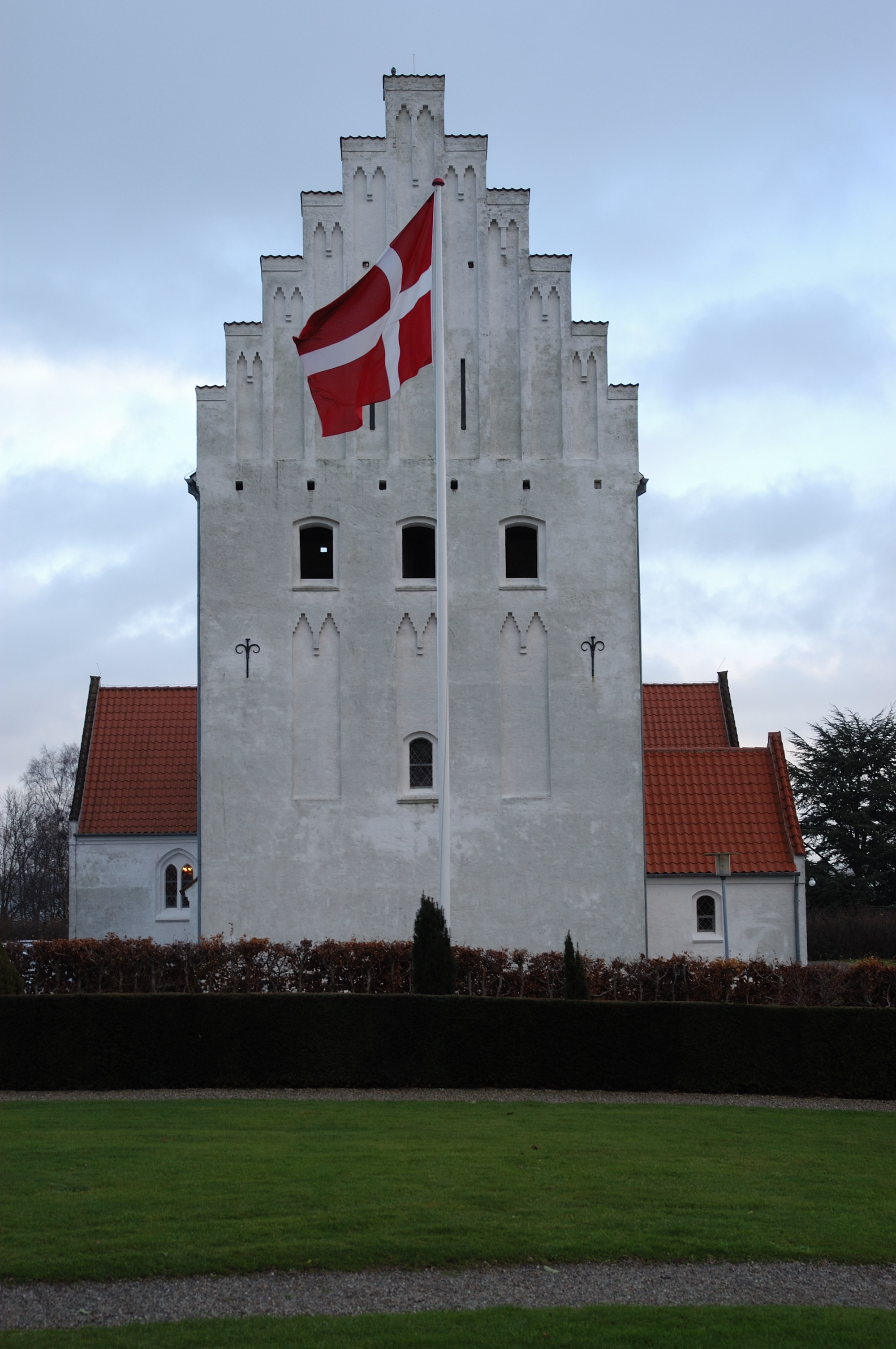 Rinkenæs church, Denmark. During the service (thus the Dannebrog hoisted)